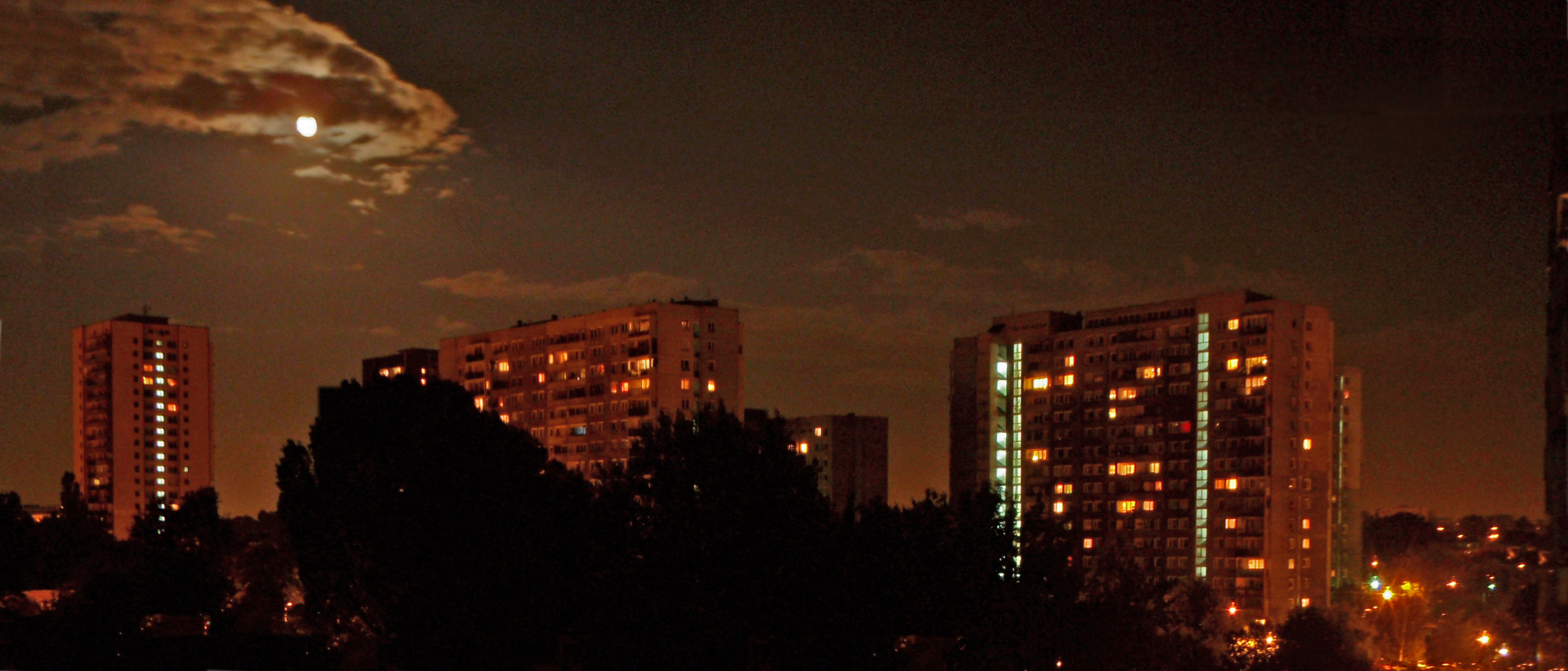 a view of Klaudyny Street towerblocks in Marymont-Ruda at night.